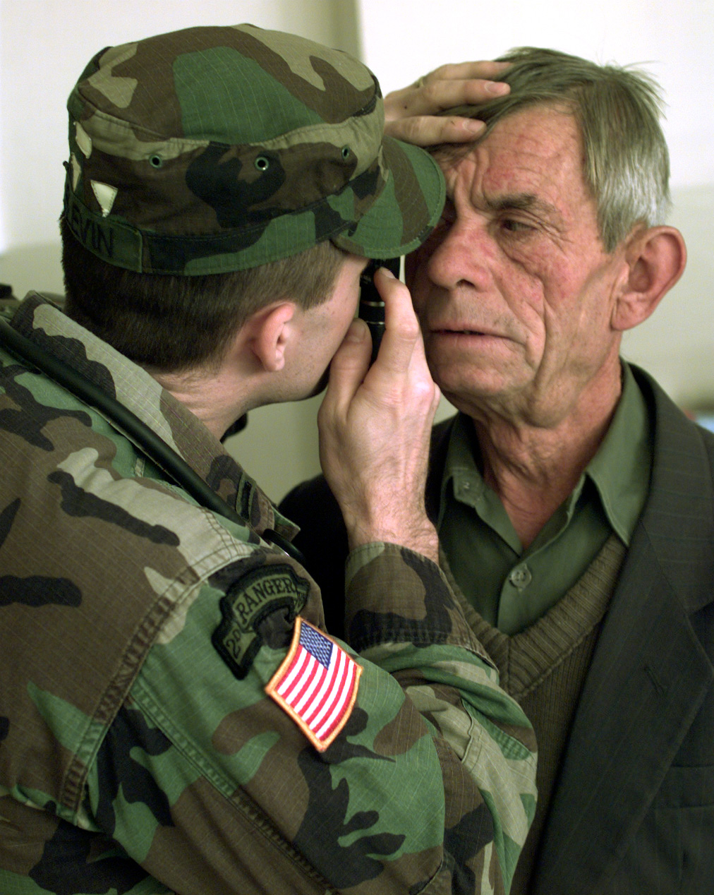 Lt. James Slevin, U.S. Army, evaluates the eyes of a local man seeking medical attention in Gornje Kosce, Kosovo, on Jan. 19, 2000. Slevin and other members of Headquarters Company, 1-63 Armored Battalion, Medical Platoon, worked at a school in Gornje Kosce to provide local people with first aid and treatment. Slevin is deployed from Vilseck, Germany, to Kosovo as part of KFOR. KFOR is the NATO-led, international military force in Kosovo on the peacekeeping mission known as Operation Joint Guardian.